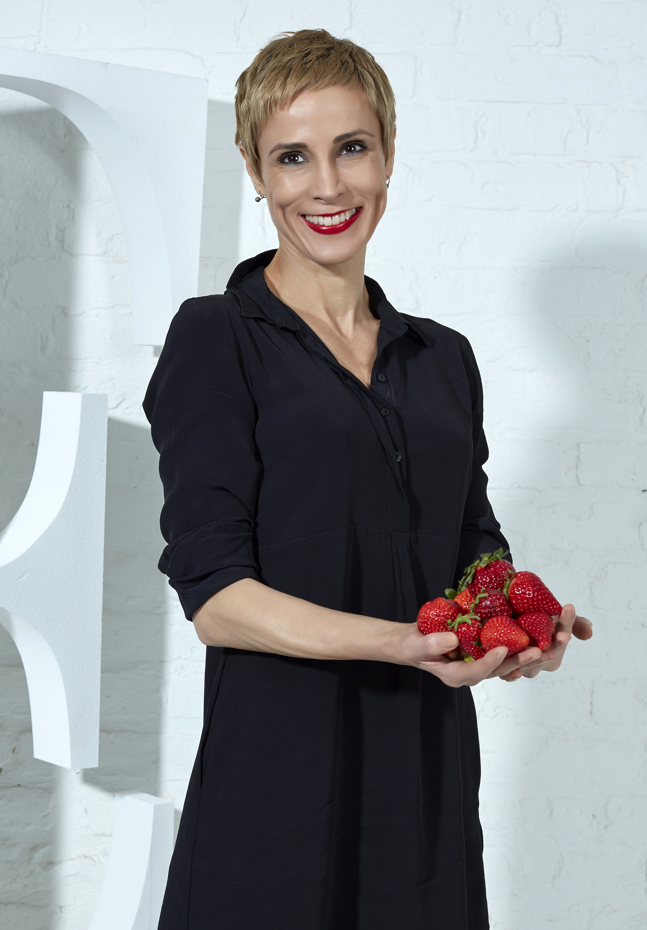 Ašen Ataljanc, Serbian balerine in 2017. Српски (ћирилица): Ашен Атаљанц, српска балерина (2017)